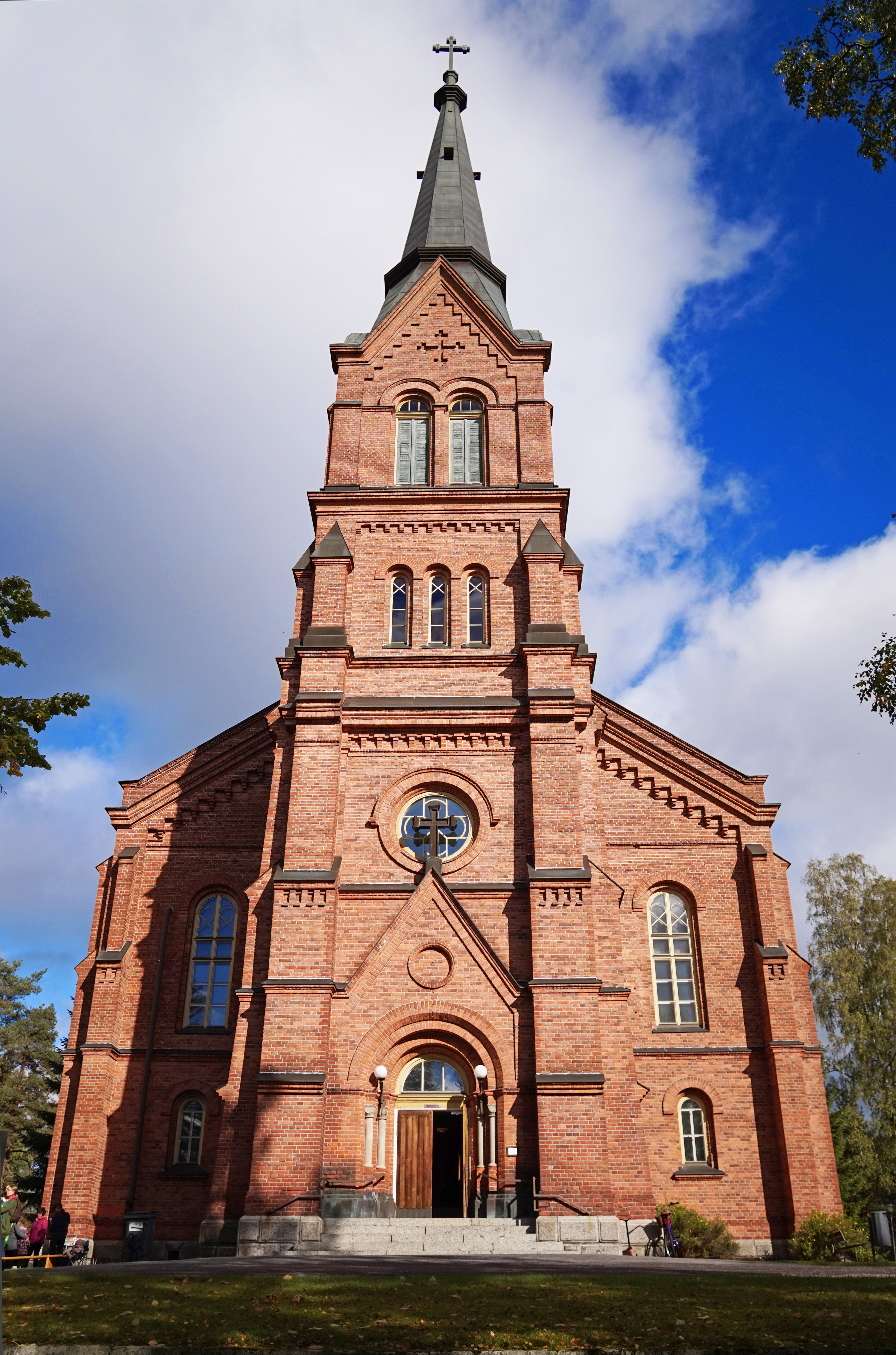 Keuruu Church, Finland.